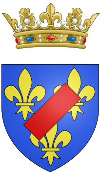 Arms of Louis Alexandre de Bourbon, Prince of Lamballe